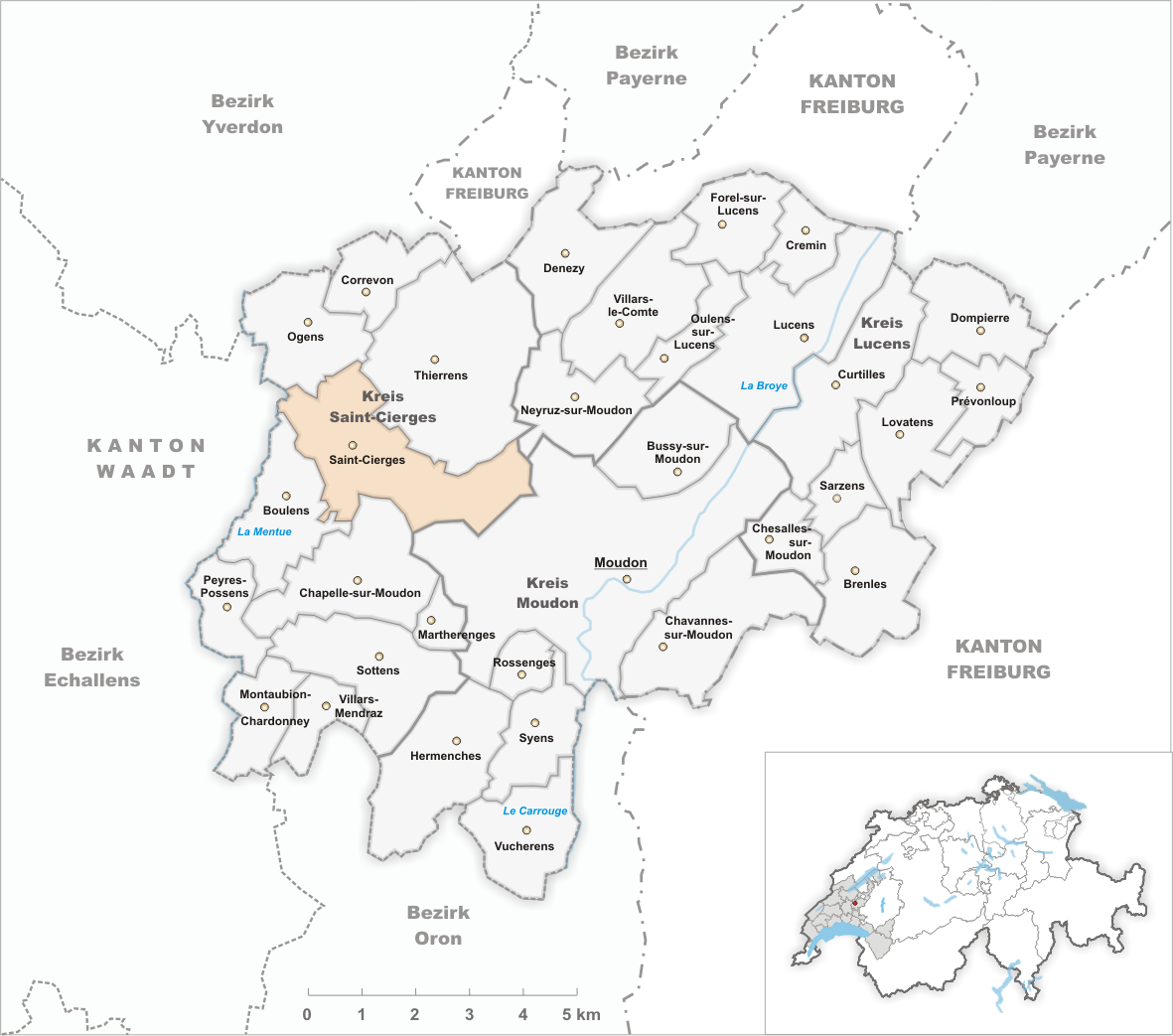 Municipality Saint-Cierges